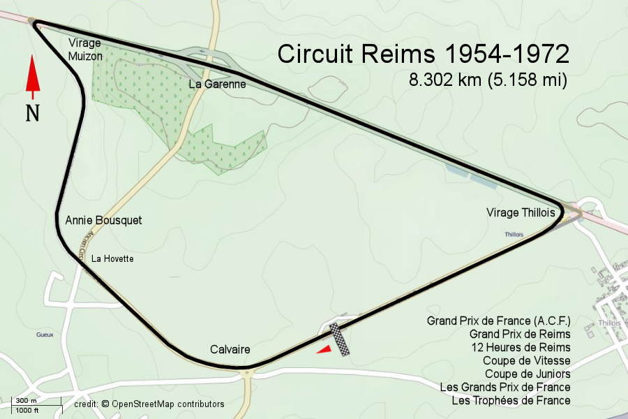 Circuit Reims 1954 (OpenStreetMap)